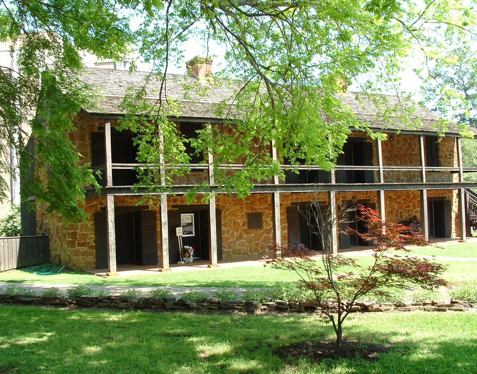 Replica of the Old Stone Fort, Nacogdoches, Texas, USA built for the 1936 Texas Centennial. The building was designated a Recorded Texas Historic Landmark in 1962.